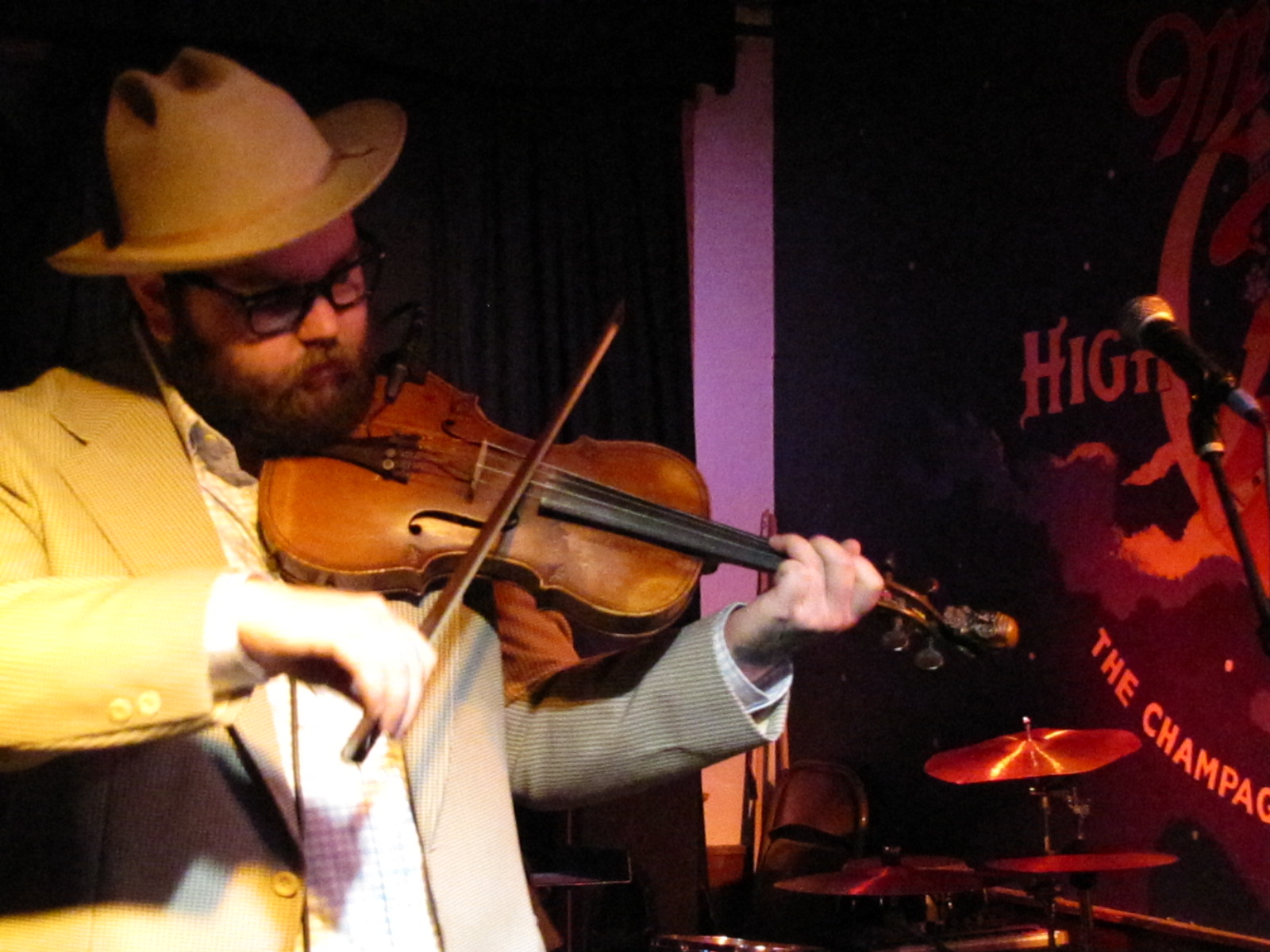 Joshua Hedley appearing with Justin Townes Earle at Barley's Taproom and Pizzeria in Knoxville, Tennessee.